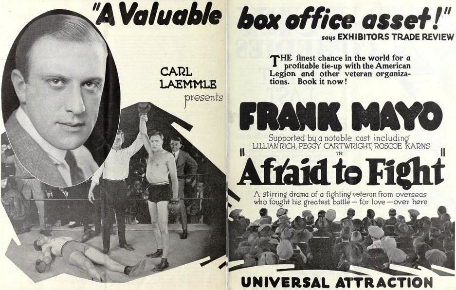 Ad for the American film Afraid to Fight (1922) with Frank Mayo, on pages 28 and 29 of the July 22, 1922 Universal Weekly.